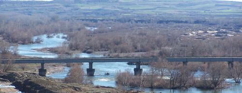 The bridge over Ardas river in Evros prefecture, Greece